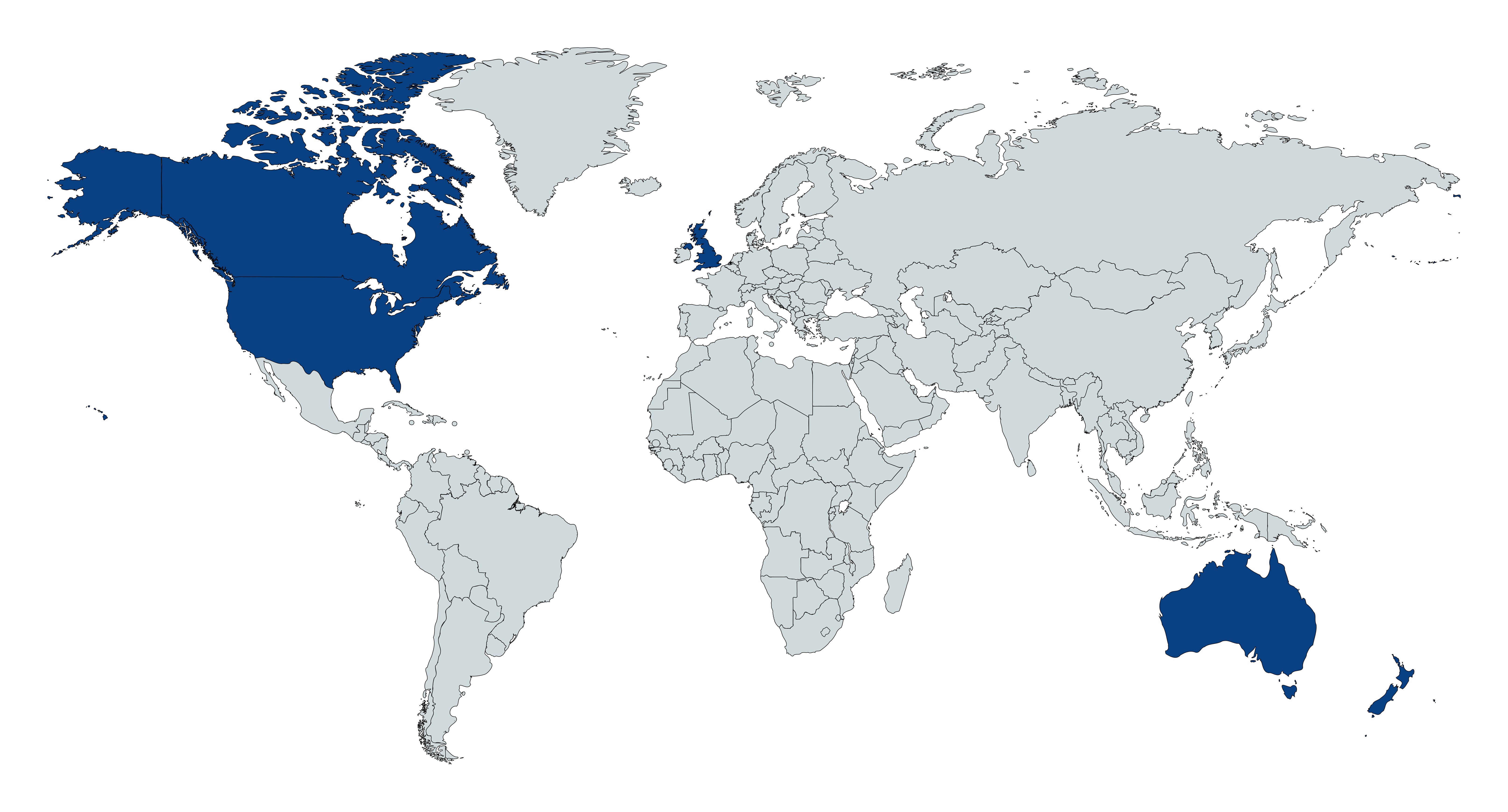 A map of the participating states in the Five Nations Passport Group. Made using